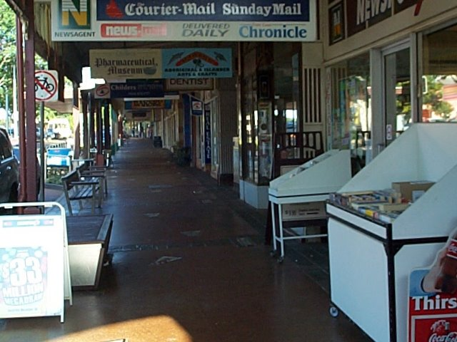 Taken by Michael Gardner 2006